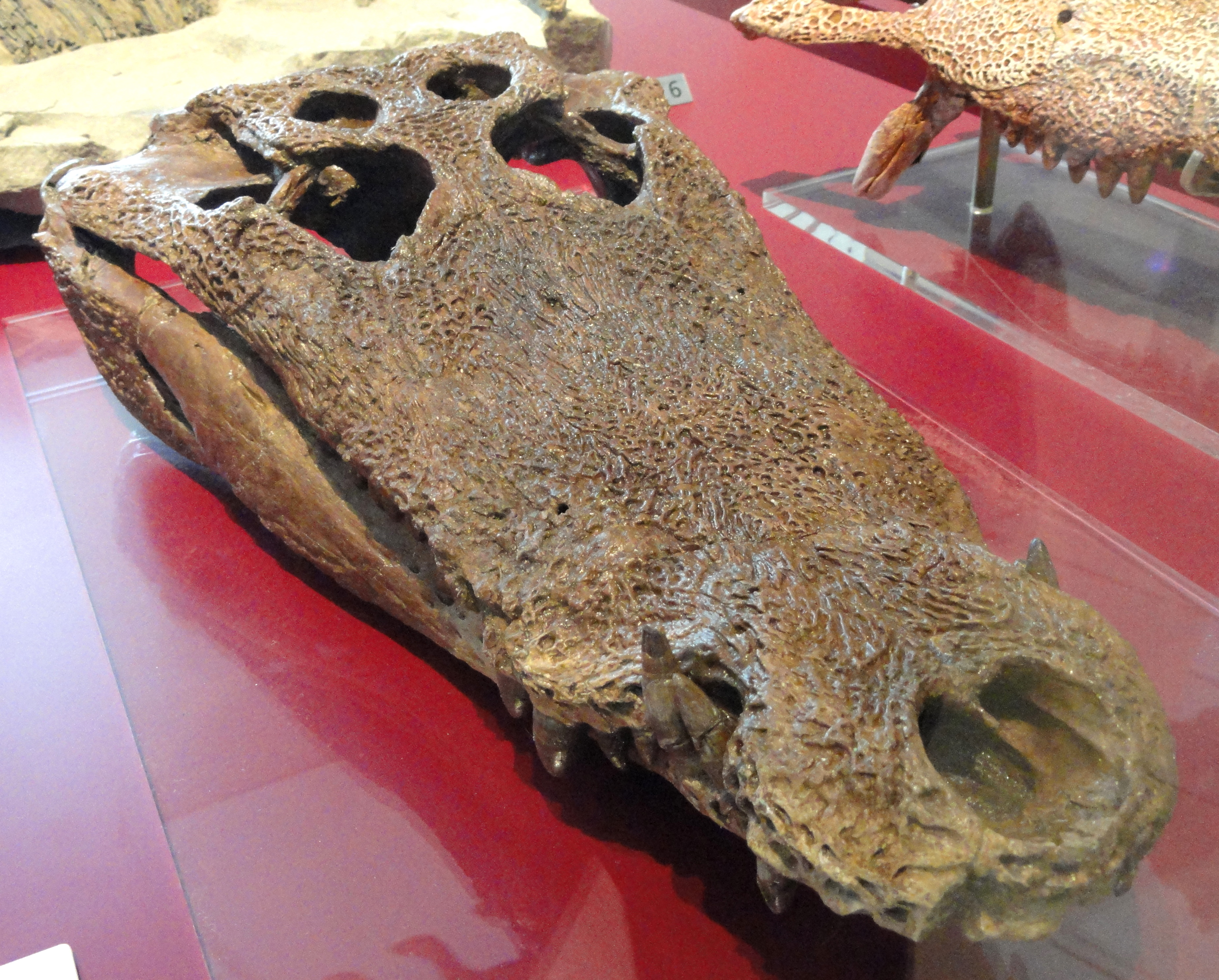 Exhibit in the Royal Ontario Museum, Toronto, Ontario, Canada. This exhibit is old enough so that it is in the public domain, and photography was permitted in the museum. I took this photograph and release it into the public domain.